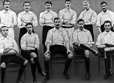 Italian Football Champion 1898 (CFC Genoa) From Left to Right: Back: James Richardson Spensley, Norman Victor Leaver, Giovanni Bocciardo, Henri Arthur Dapples, Silvio Piero Bertollo, John Quertier Le Pelley Front: Ettore Ghiglione, Enrico Pasteur, Fausto Ghigliotti, Ernesto De Galleani, William Baird